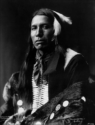 Yellow Shirt, Hunkpapa Sioux chief. Photograph by Frank A. Rinehart, 1898. Part of the Rinehart Indian Photographs collection, Haskell Indian Nations University.